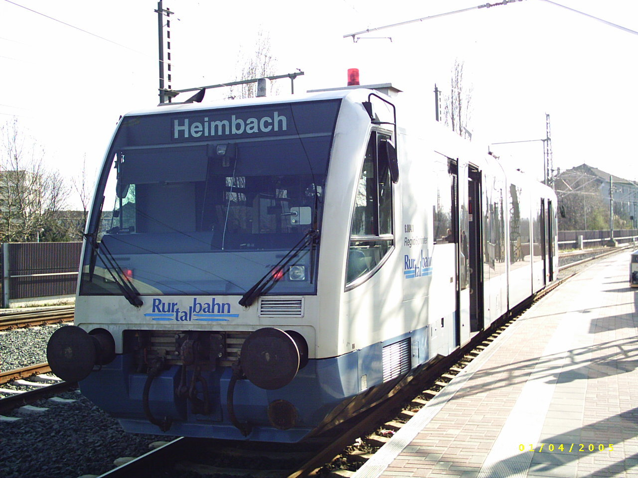 train of Rurtalbahn in Düren, Germany check usage